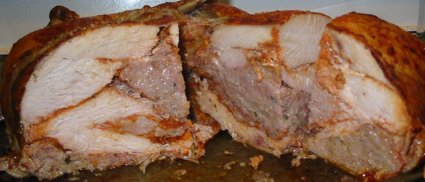 A commercially-assembled semi-boneless turducken with pork sausage stuffing, roasted and cut into quarters to show the internal structure. This picture is not an authentic Turducken.